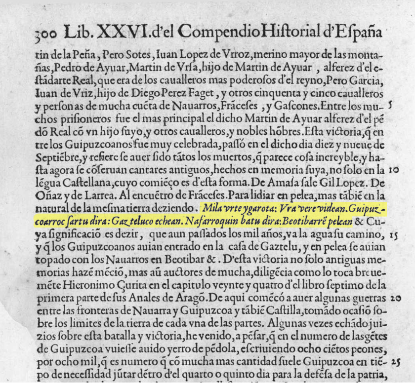 Beotibarko gudua eta kanta, Esteban Garibairen historia liburu mardulean